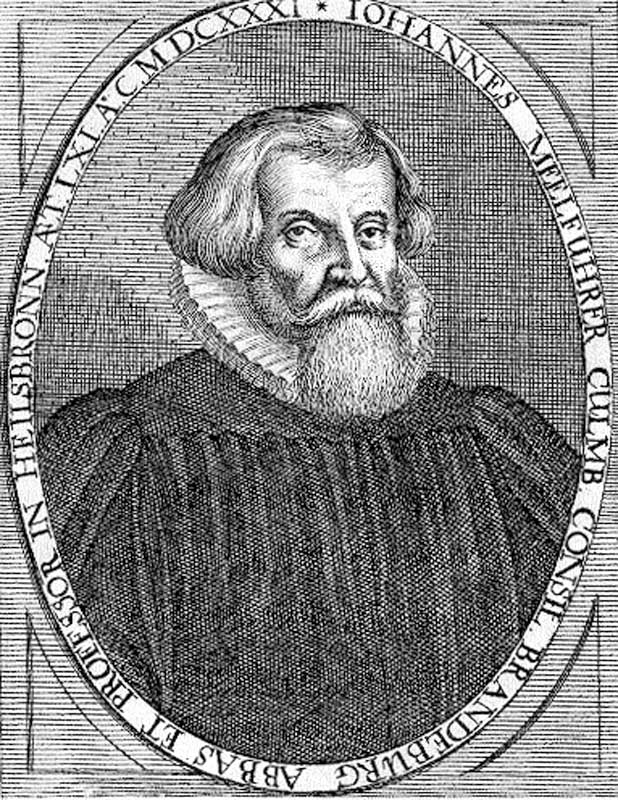 Johannes Meelführer (1570-1640) Protestant theologians from Germany